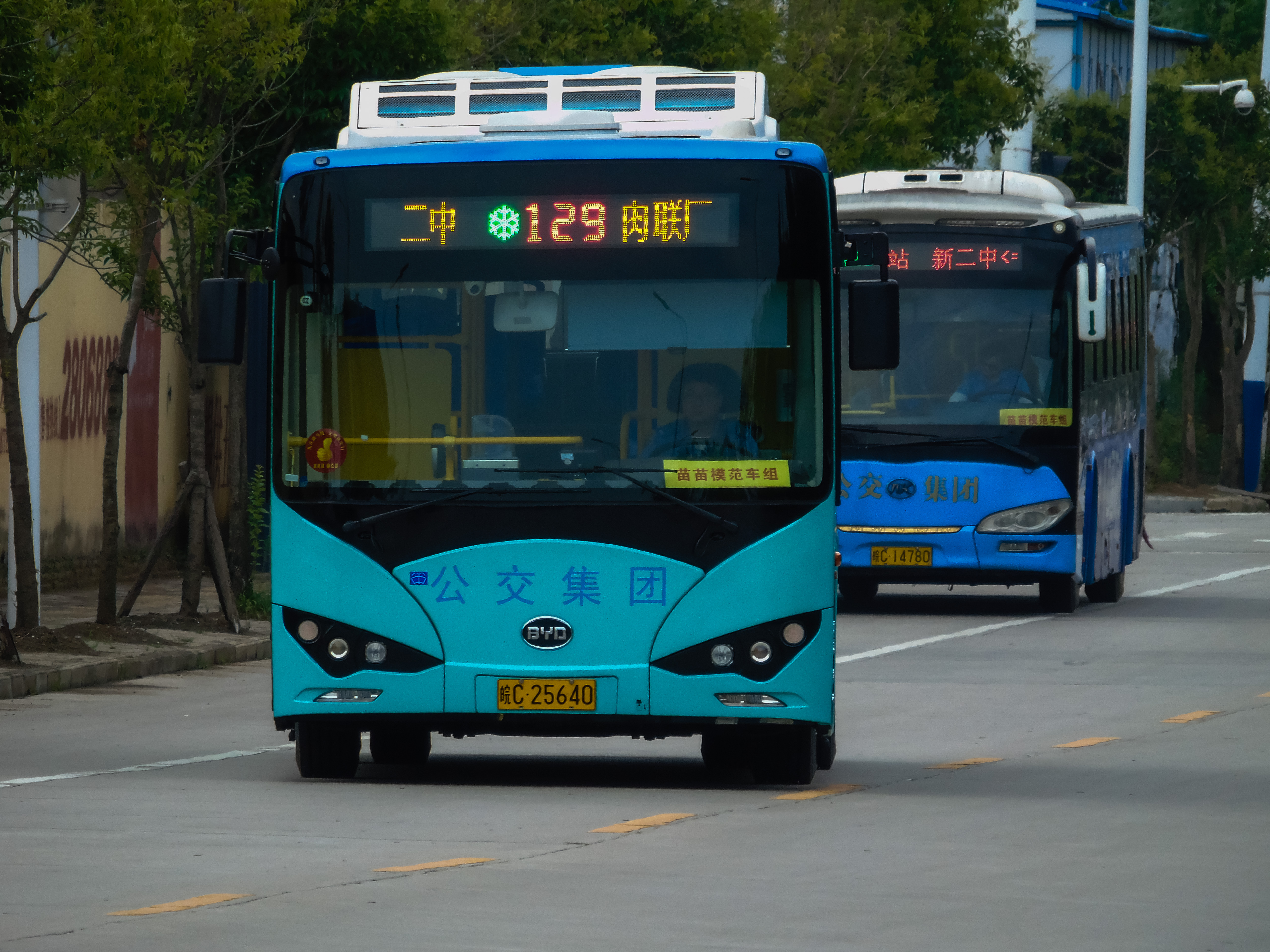 Bengbu Bus No.129 and No.121 25640 14780